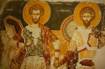 Saints Theodore Tyro and Theodore Stratelates, 16th century icon, Monastery of the Transfiguration of the Lord, Prilep, Macedonia